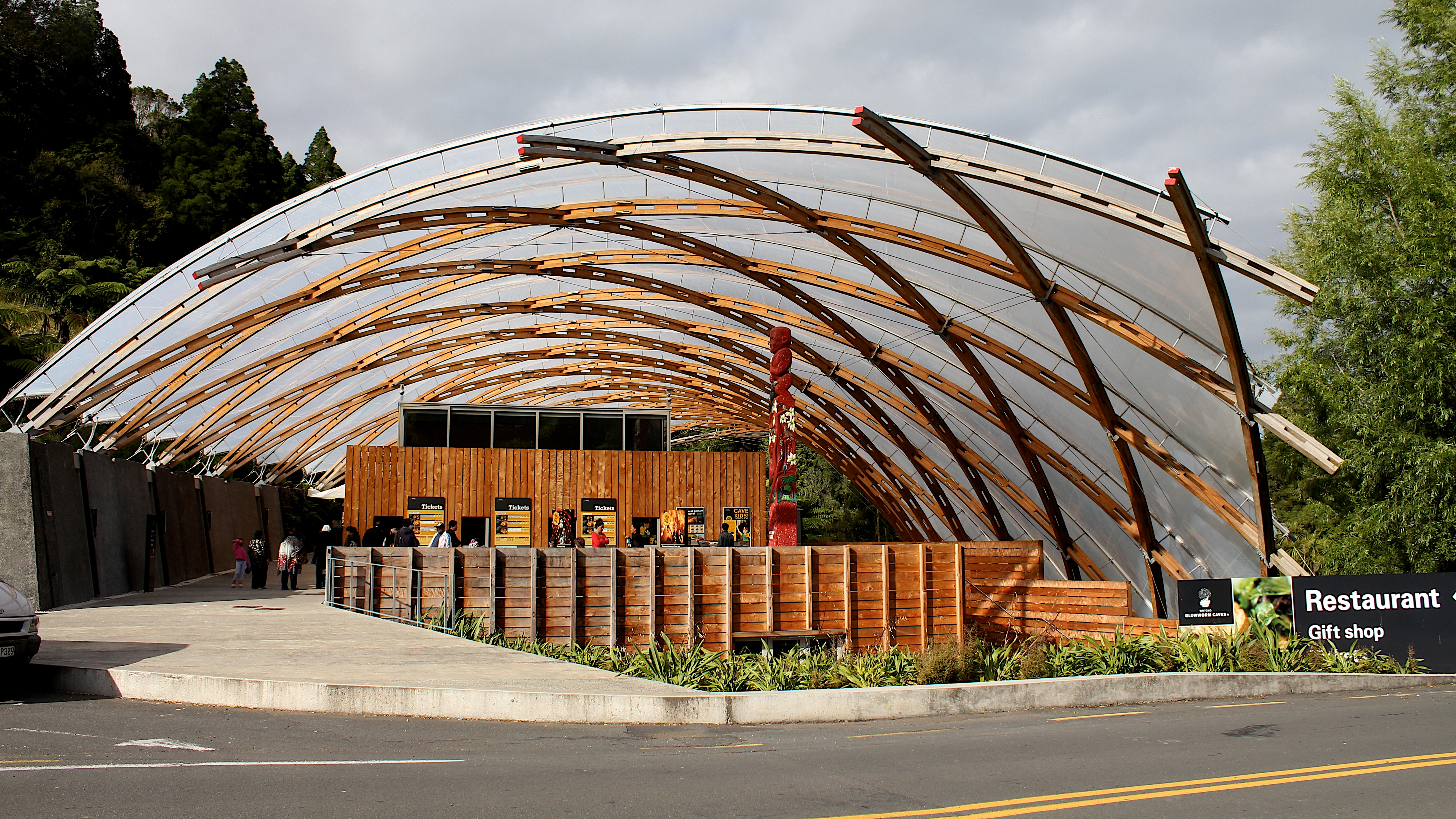 Visitor Centre at the Waitomo Glowworm Caves, New Zealand. Designed by Architecture Workshop.